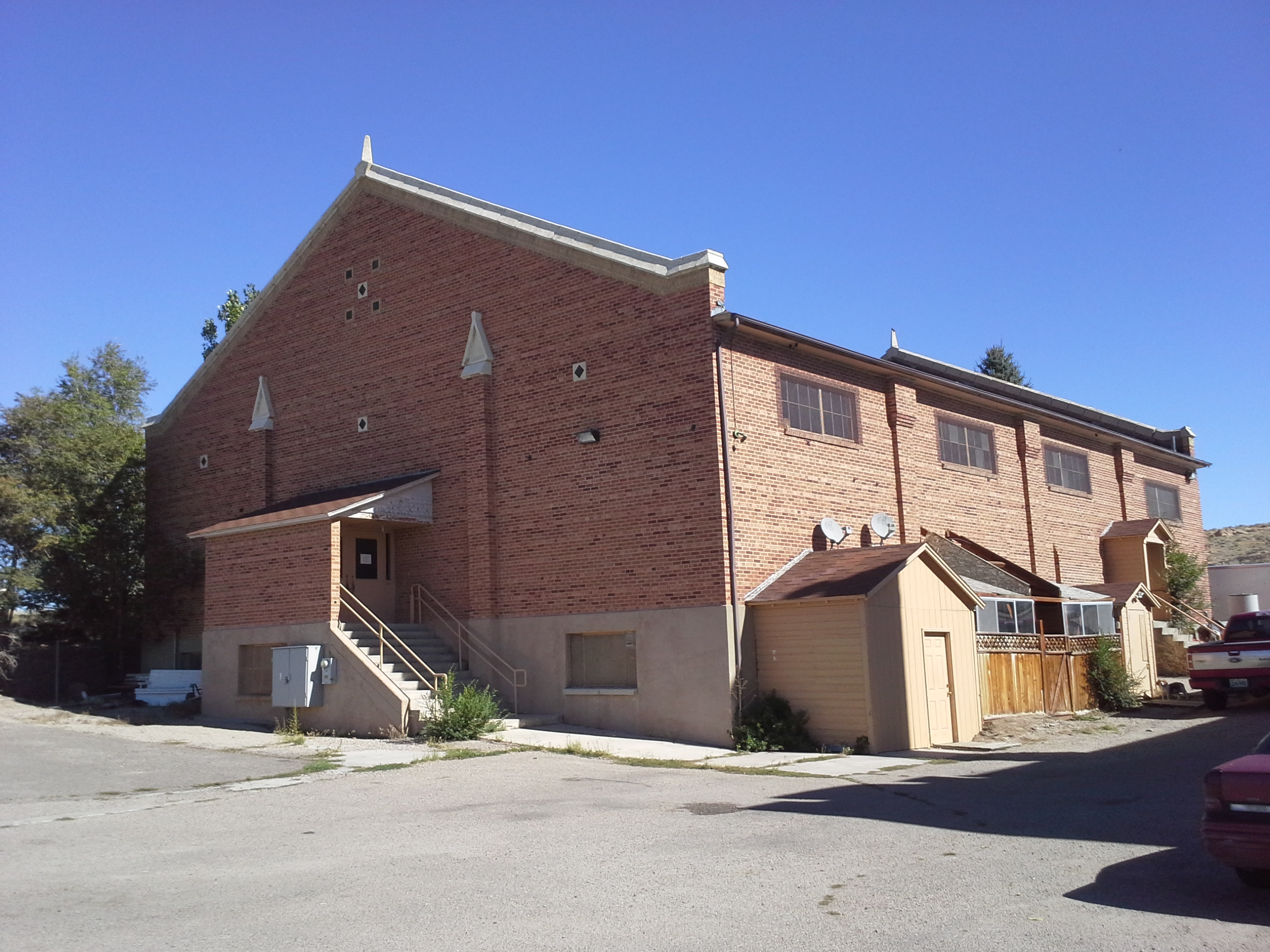 Reliance School and Gymnasium, 1321 Main St. Reliance